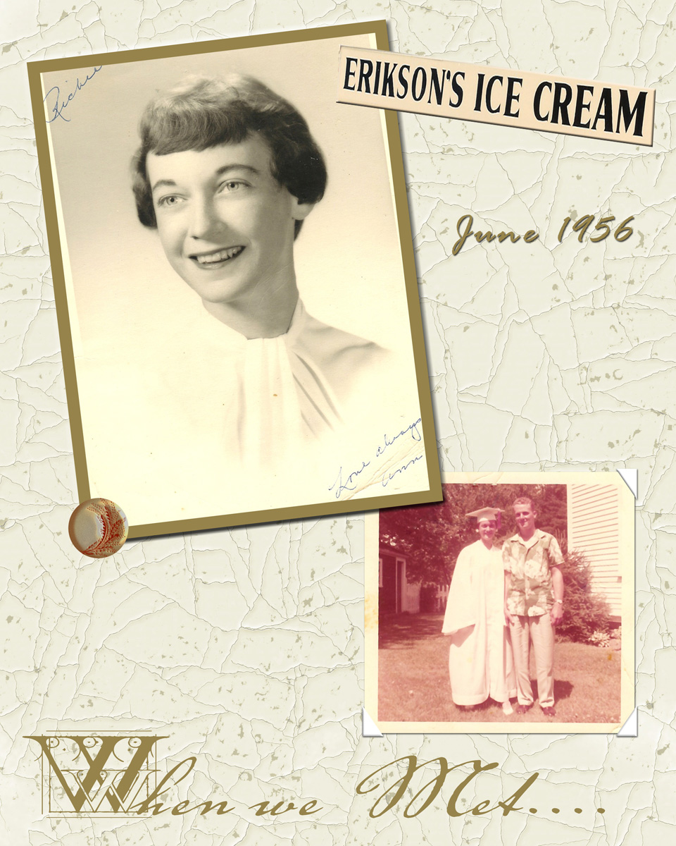 Mom at graduation